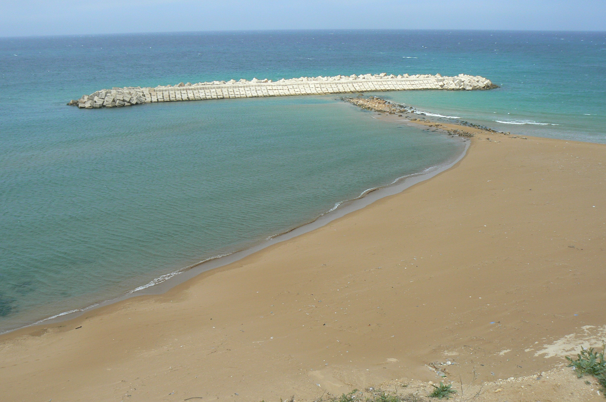 photo naturelle mostaganem